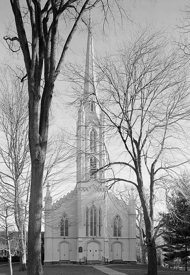 Trinity Church — in Southport, Connecticut. 1966 photo from the HABS—Historic American Buildings Survey of Connecticut.